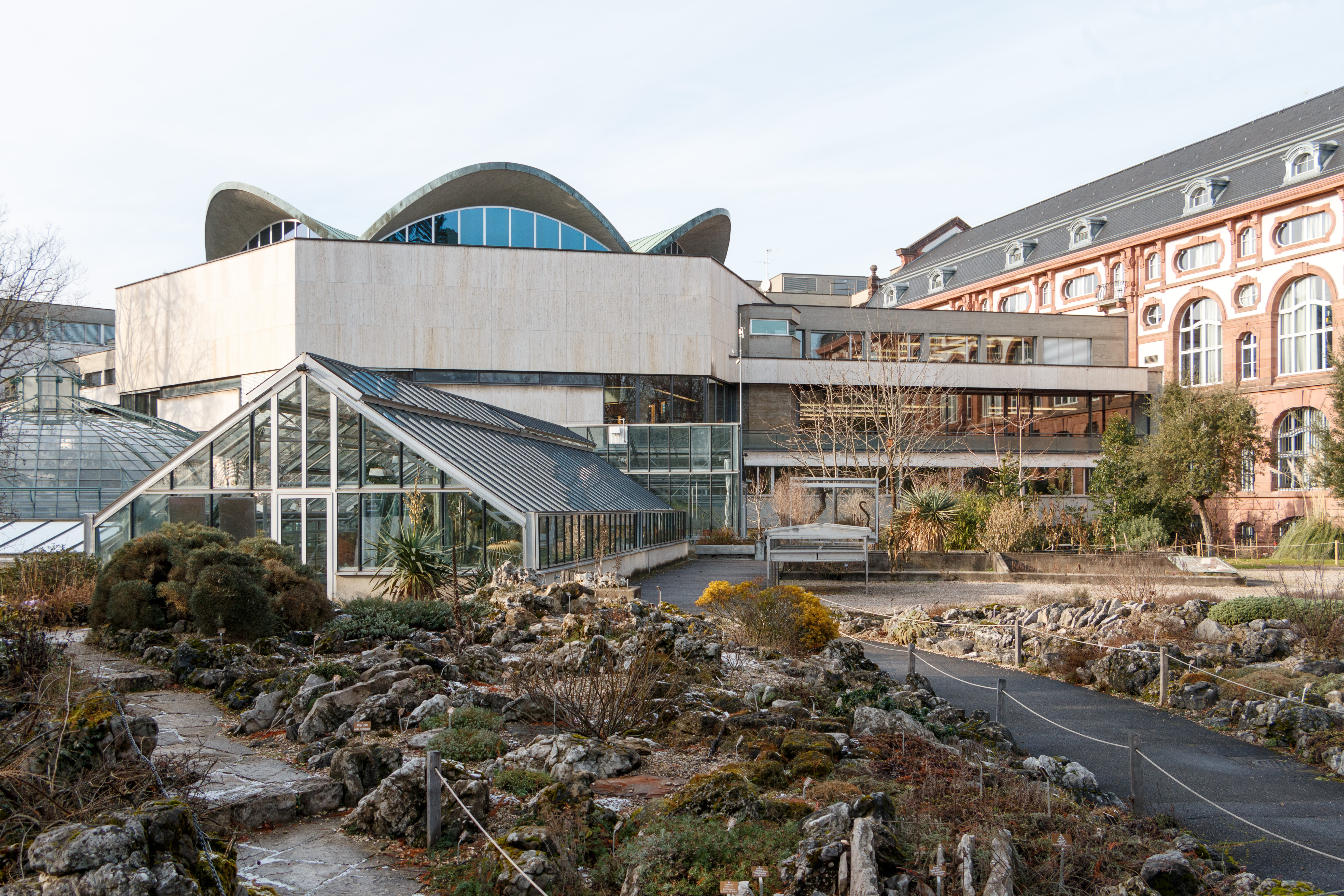 Botanischer Garten der Universität Basel in January 2014